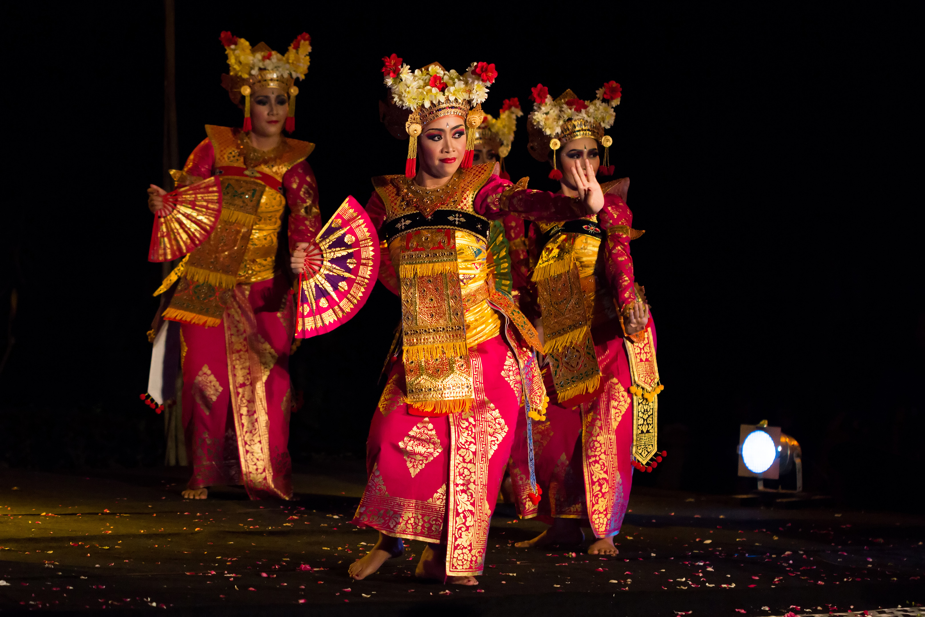 Sanata Dharma University's Sekar Jepun, a Balinese dance troupe, celebrates its 17th anniversary. Here the Legong Bapang Saba is danced.